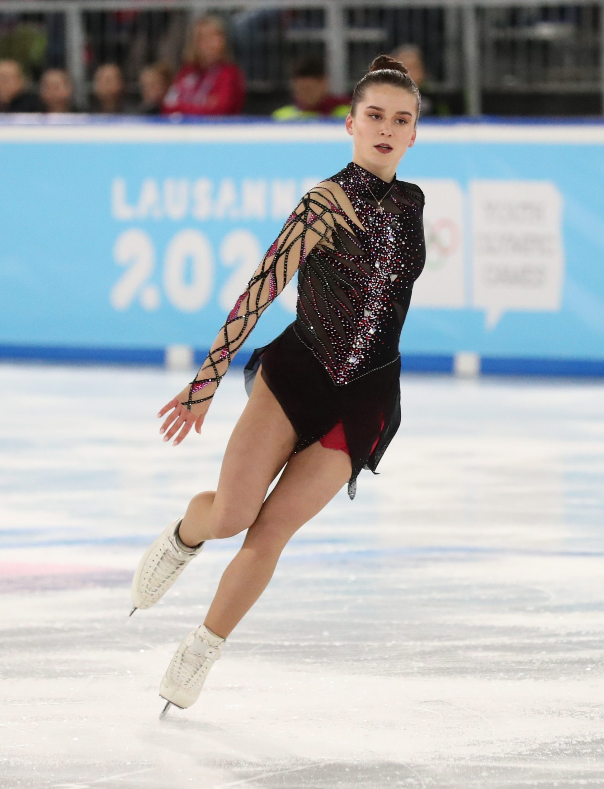 Women Single Figure Skating Short Program at the 2020 Winter Youth Olympics in Lausanne